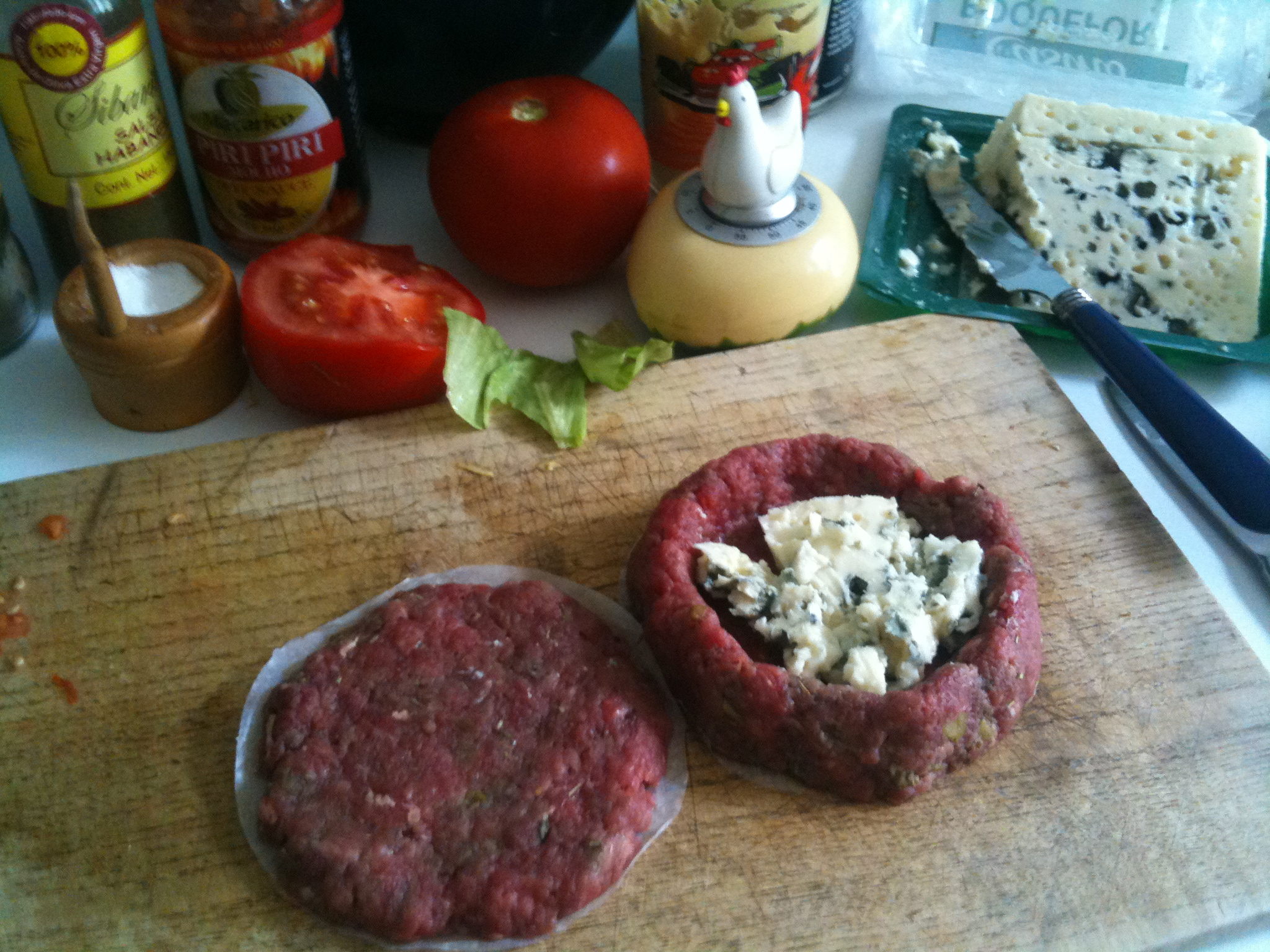 A photo of a juicy lucy interior with Roquefort cheese.